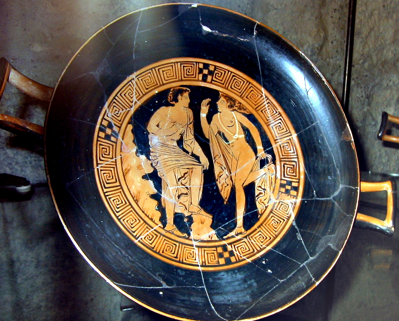 Red figured Kylix from the second quarter of the fith century b.c., found at the etruscan necropolis of Vulci in the province of Viterbo in Italy. Now on view in the Museo Archeologico Di Vulci.